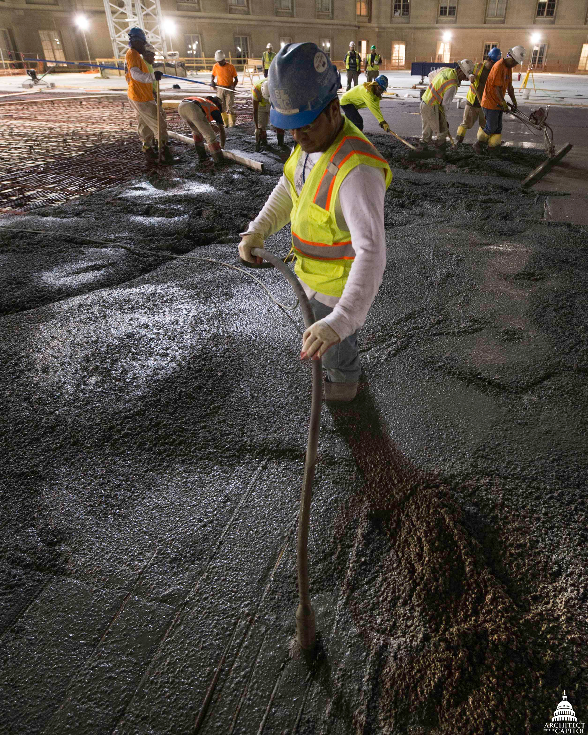 Worker uses a concrete vibrator to ensure the correct consistency in the concrete. Work for the initial phase of the Cannon Renewal Project includes updating building utilities, primarily in the basement and the moat area of the courtyard. This phase enables future phases to connect the new building-wide utility services with minimal shutdowns and disturbances. More at